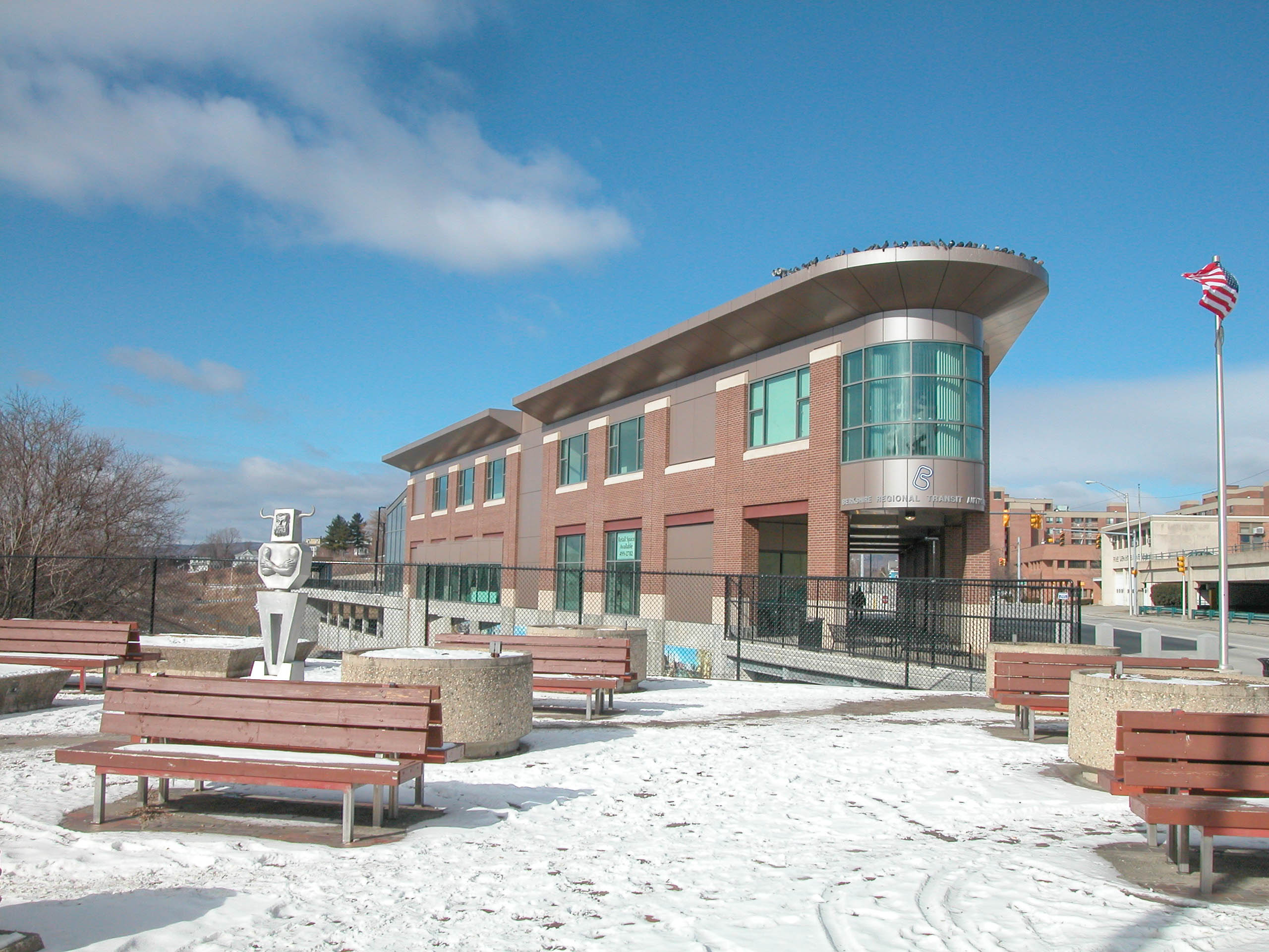 Front of the Joseph Scelsi Intermodal Transportation Center in Pittsfield, Massachusetts